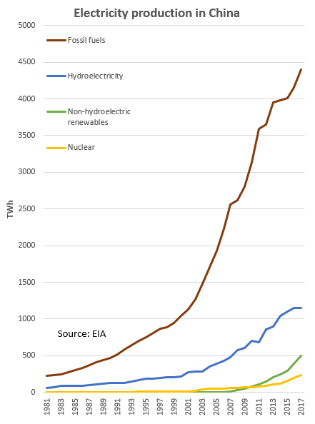 EIA data Created in Excel